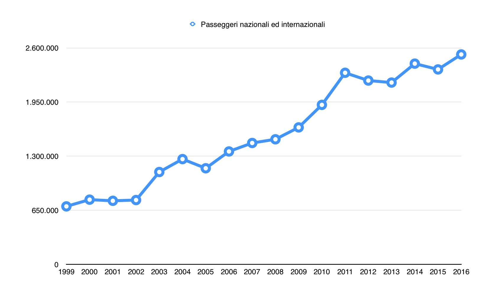 Passengers at Lamezia Terme International Airport between 1999 and 2016.